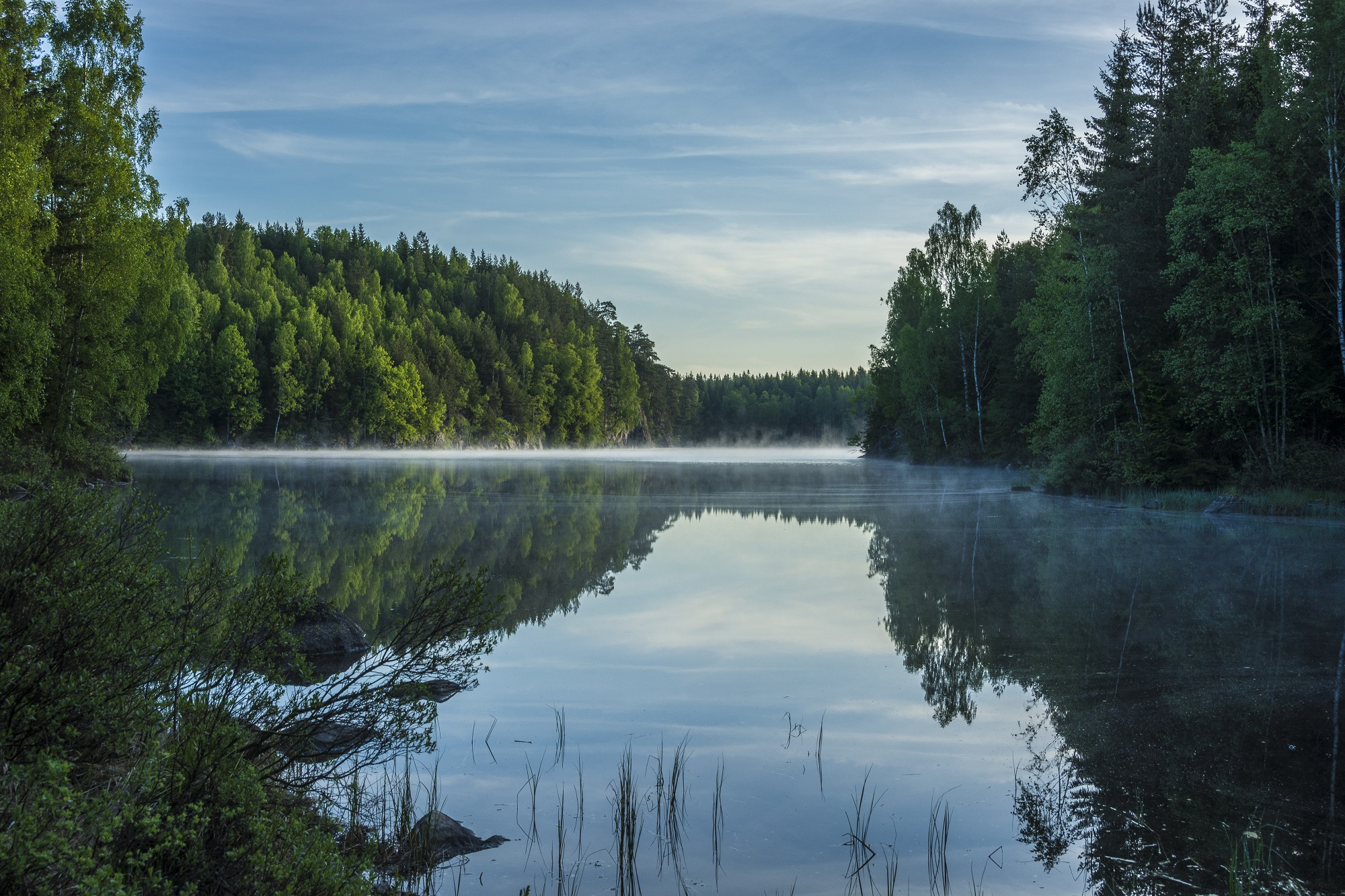 Morning view from Storsjön (Great Lake) Nature reserve close to Viskafors village in Västergötland county, Sweden.